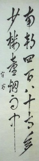 Osachi Hamaguti's Handwriting